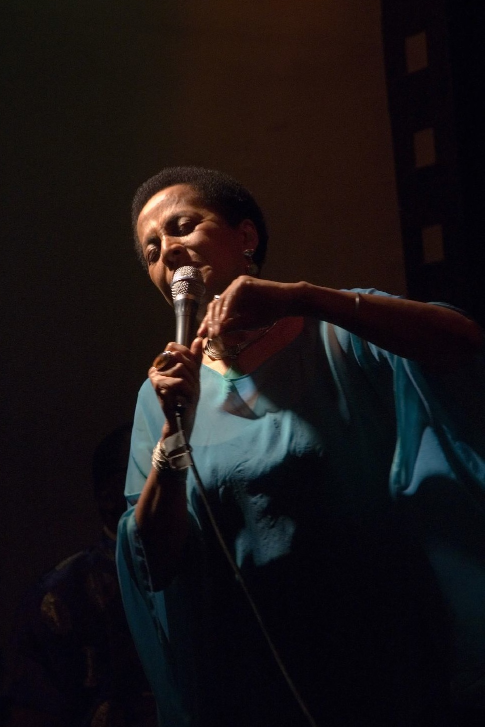 Susana Baca performing in 2006.